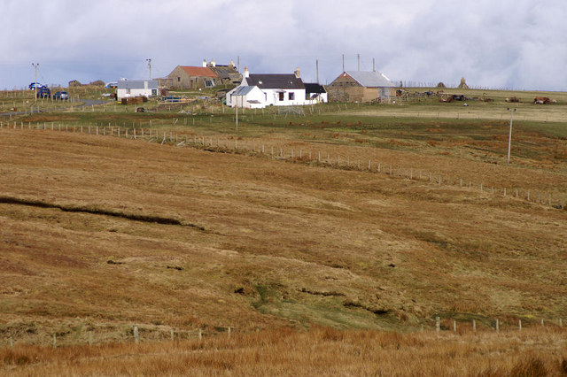 Basta, a small settlement near the shores of Basta Voe. Mainland, Shetland.